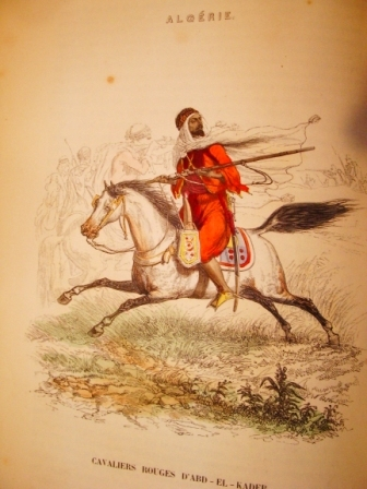 Red Riders of Abd El Kader. Gravure.